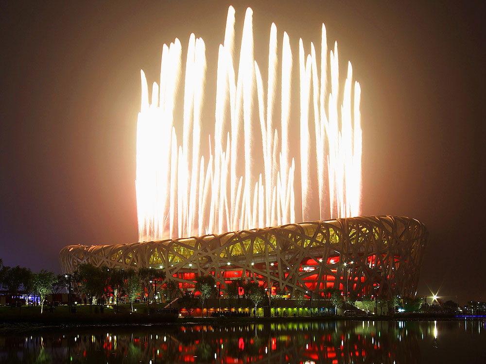 The nest of fireworks